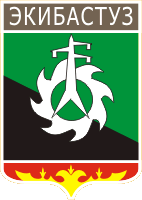 Coat of Arms, Ekibastuz city